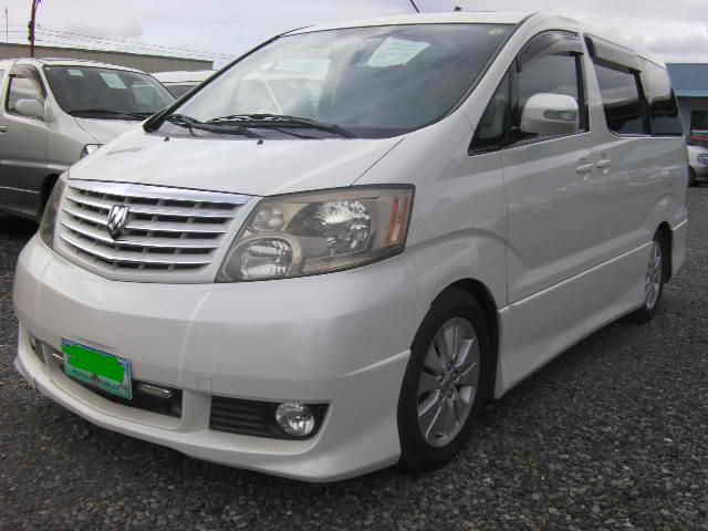 cool luxury japanese van